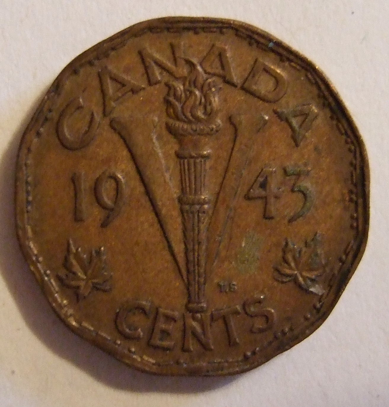 1943 Canadian five cent coin with the "V" for Victory